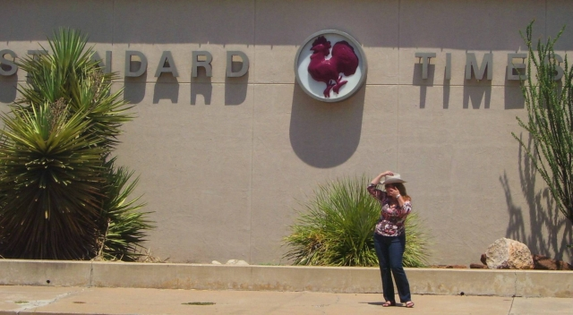 Sarah Holland, British romance novelist and journalist